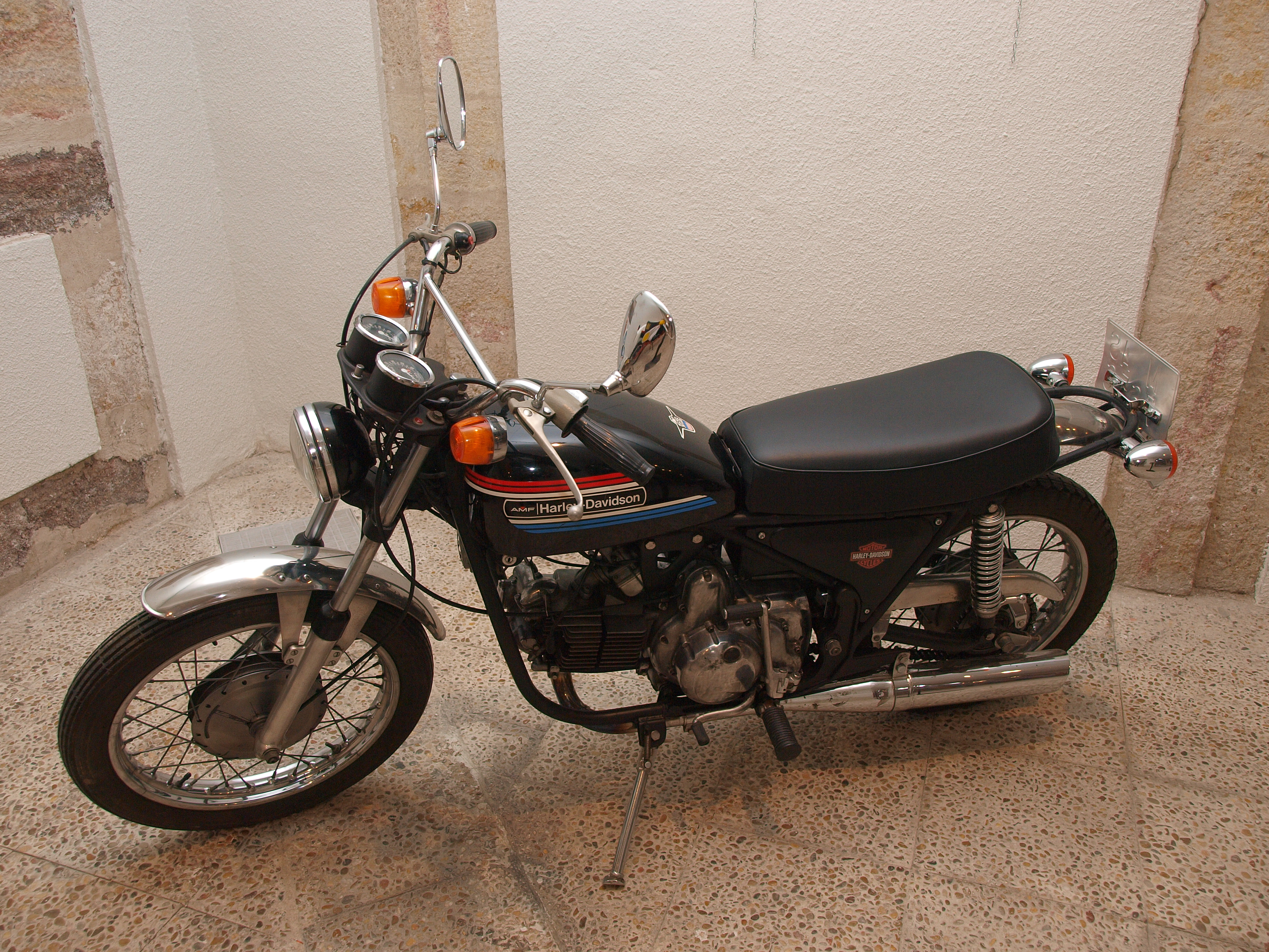 An italian built Harley-Davidson Aermacchi HD SS350 motorcycle (1974) in Zamora (Spain), III Exhibition of the Asociacion Motociclista Zamorana, February 2013